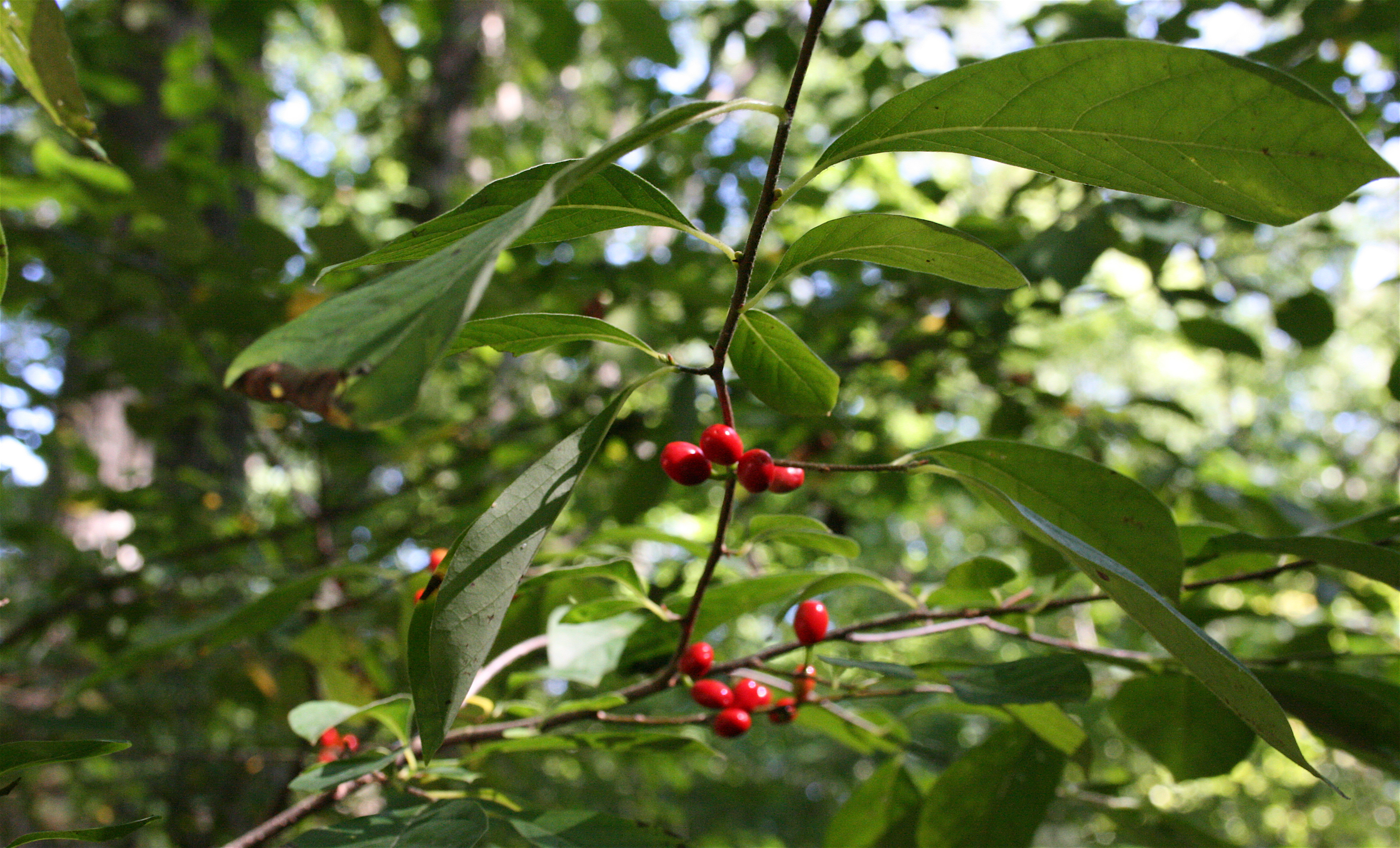 Common Spicebush (Lindera benzoin) on the Al Sabo Preserve in Texas Township, Michigan.